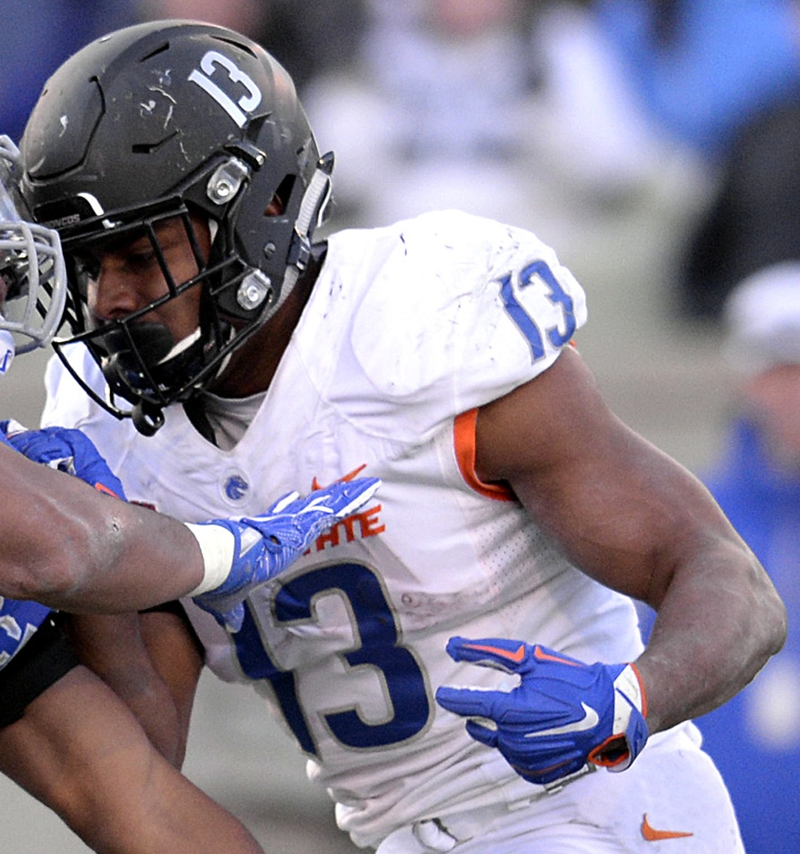 Boise State running back Jeremy McNichols in a game at Air Force in 2016.